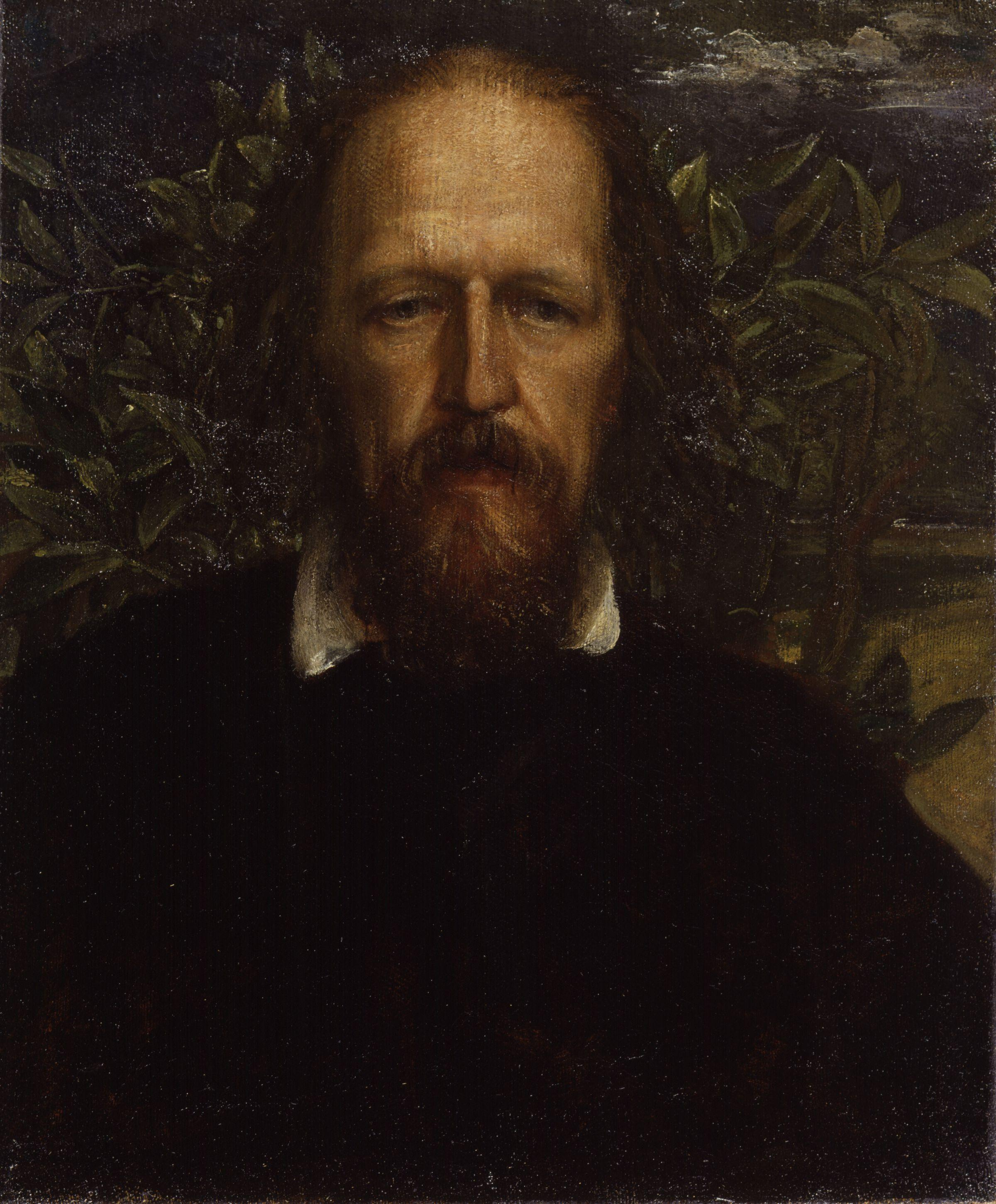 Alfred Tennyson, 1st Baron Tennyson, by George Frederic Watts (died 1904), given to the National Portrait Gallery, London in 1895. All images in this batch have been confirmed as author died before 1939 according to the official death date listed by the NPG.